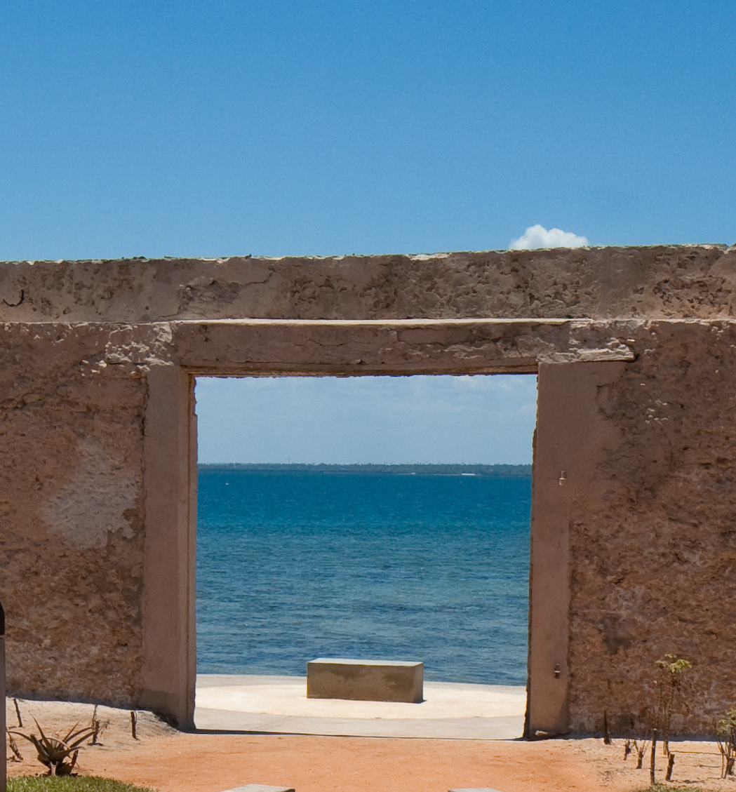 Garden of Memory - Island of Mozambique (Ilha do Moçambique) was the major point of departure of the slave trade from Mozambique.